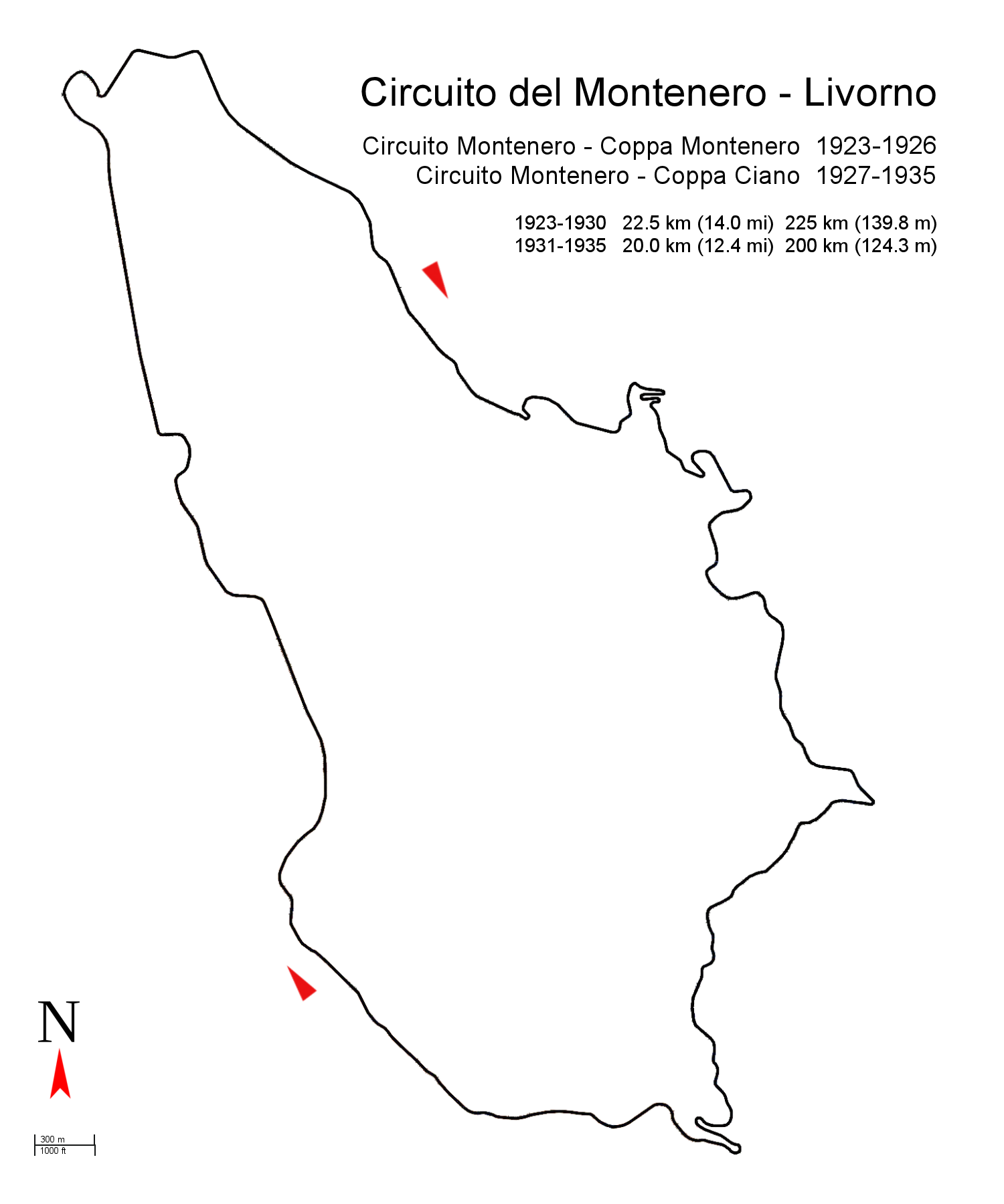 Circuito Montenero 1923-1935